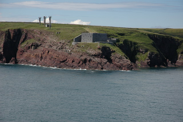 West Blockhouse Point This structure is situated on the Dale Peninsula and was originally built during the Napoleonic Wars, later it was used as a lookout post by the military up to the Second World War.